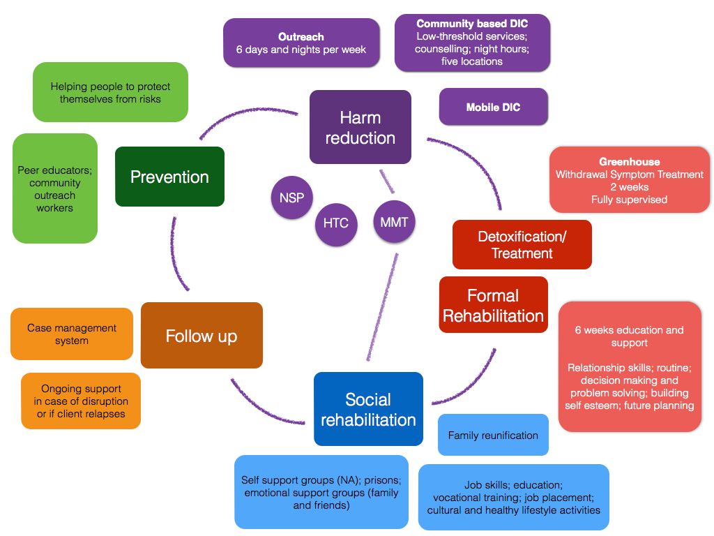 The Friends-International Drug Project continuum of care